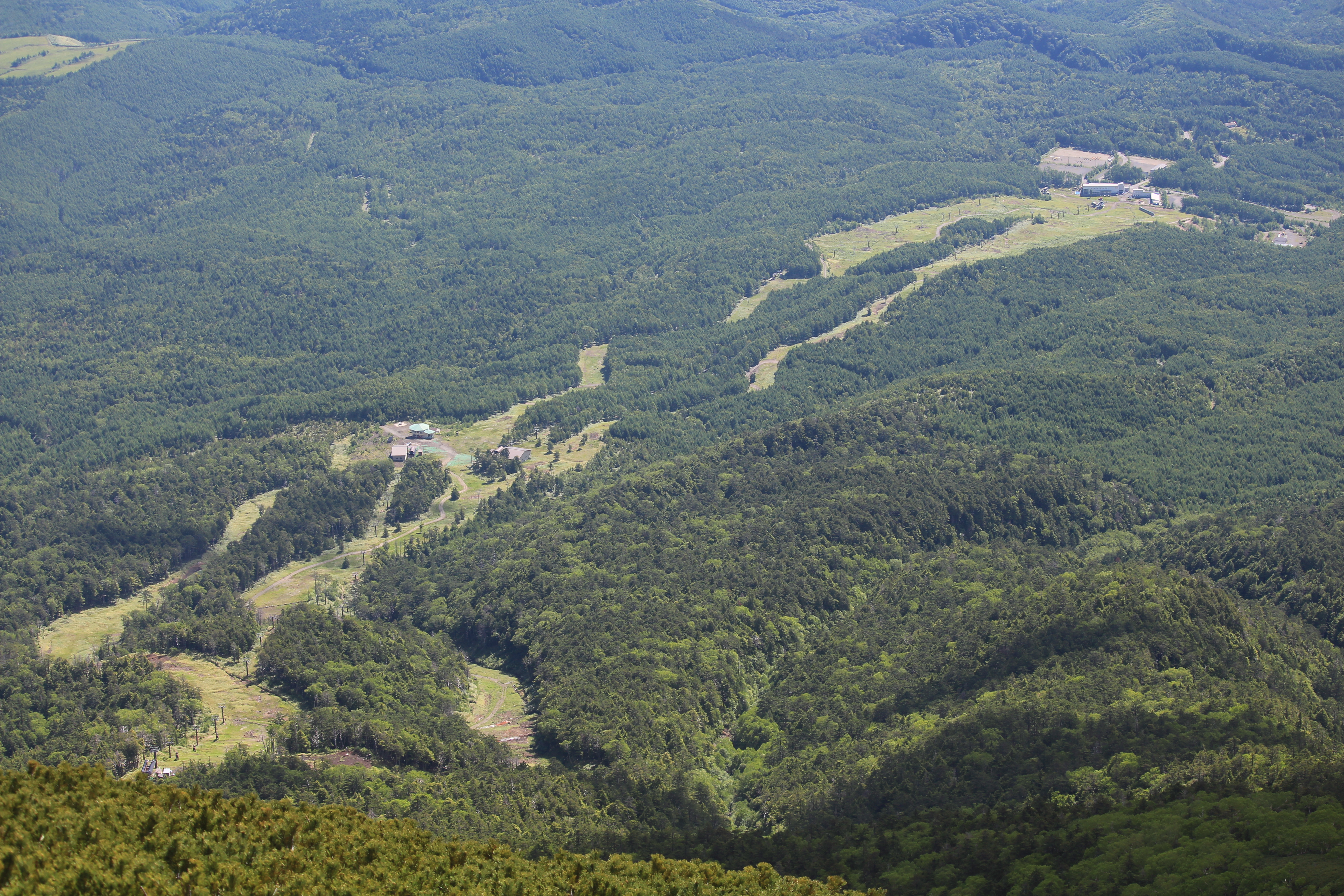 Kaidakogen MIA Ski Resort seen from Mount Mamako (Mount Ontake) in Kiso, Nagano prefecture, Japan.